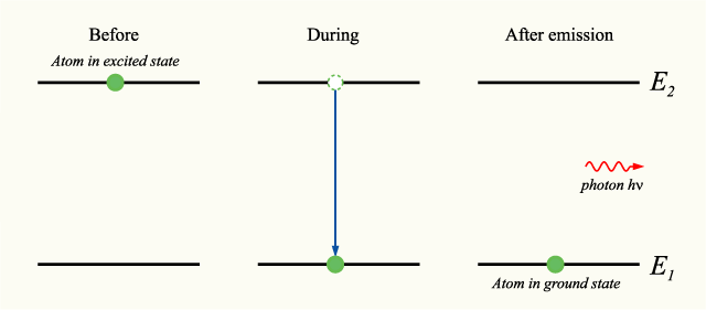 Act of spontaneous emission